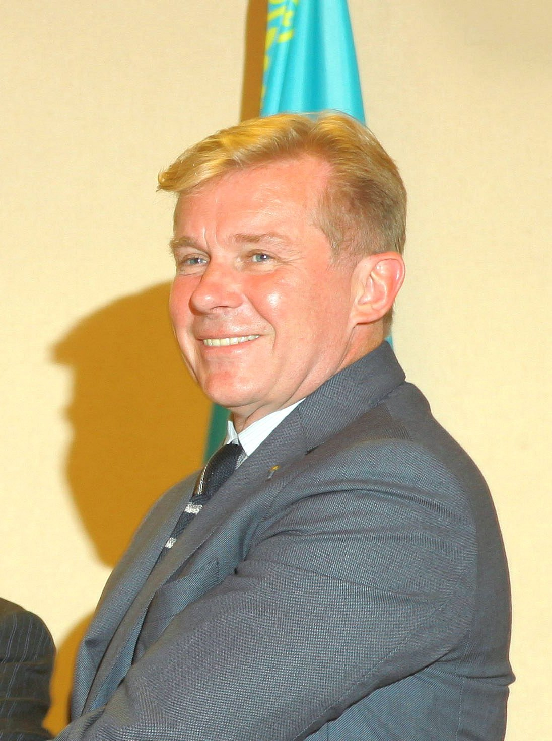 Audronius Ažubalis